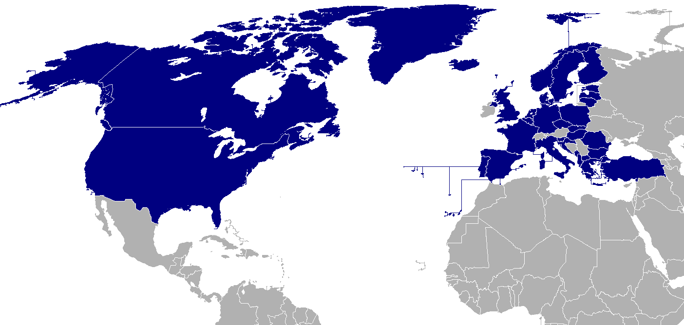 Map of NATO countries. NATO member states